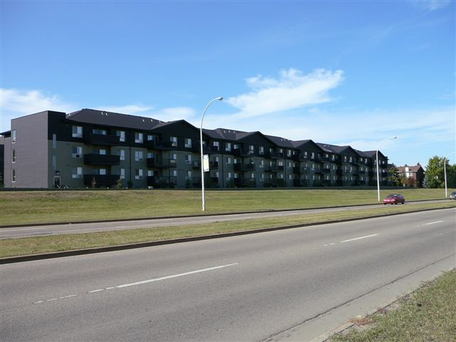 I took this picture myself on September 15, 2007